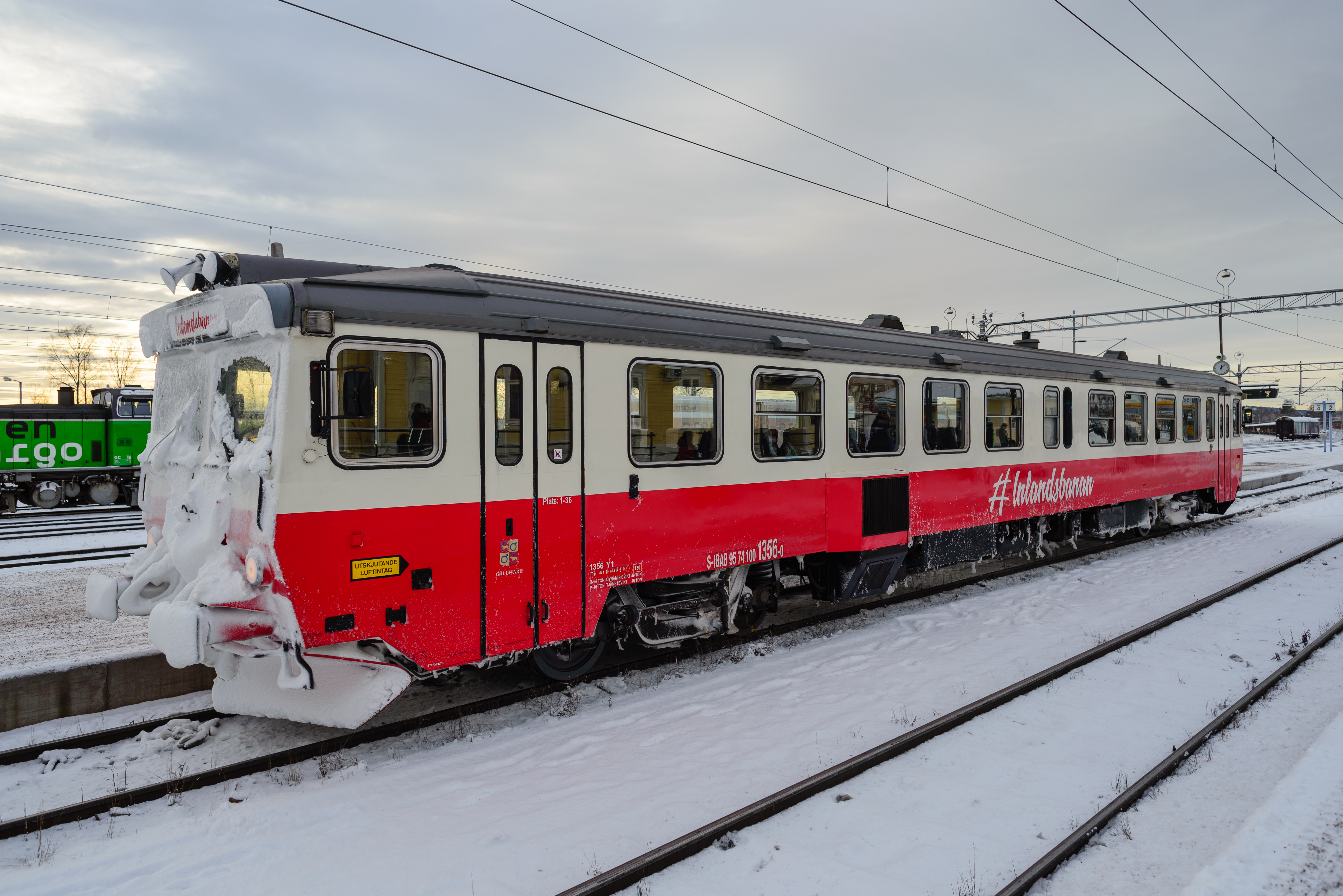 Y1-train from Inlandsbanan at Mora station.